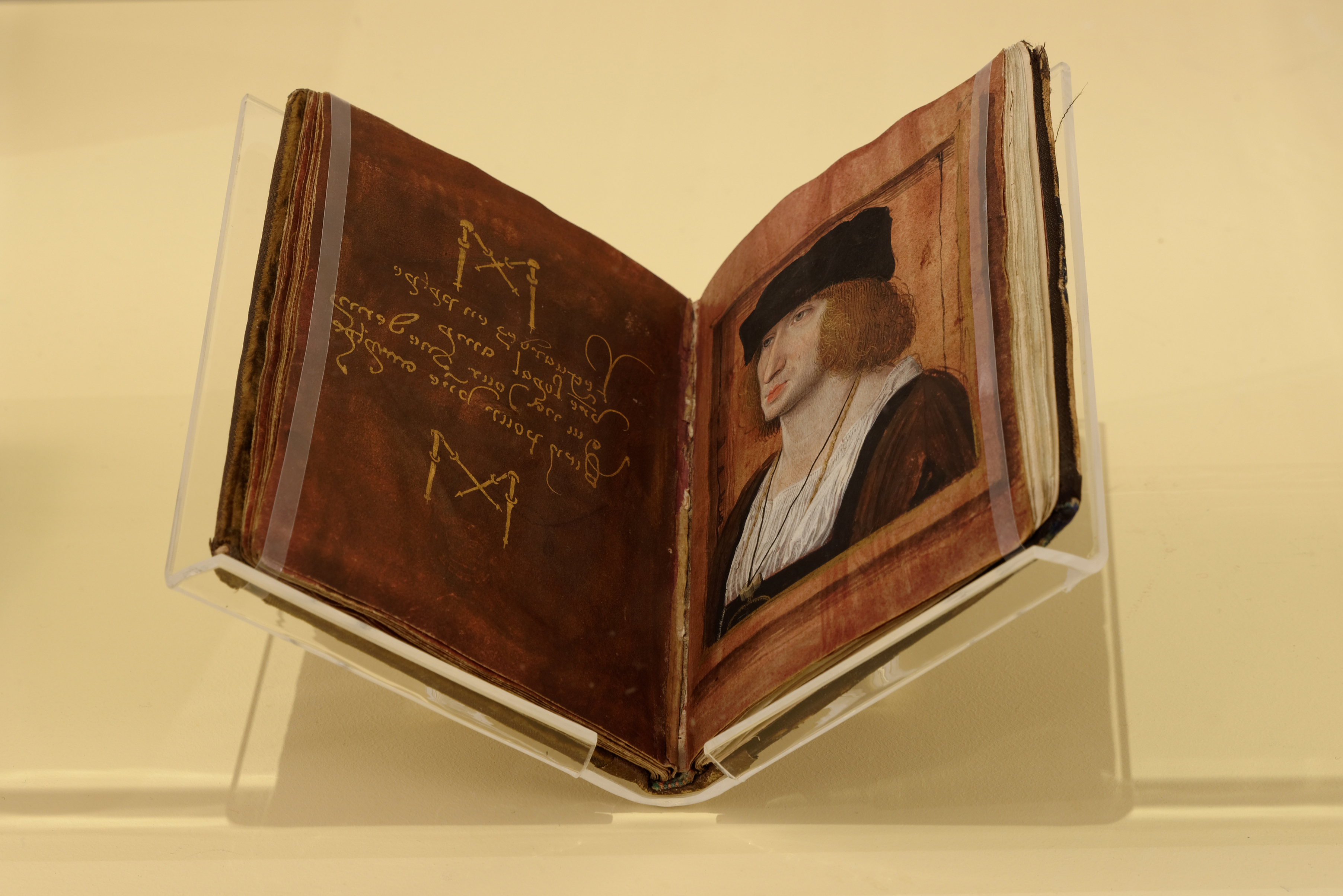 Portrait of Pierre Sala, drawn by Jean Perréal in Petit Livre d’Amour. c 1500